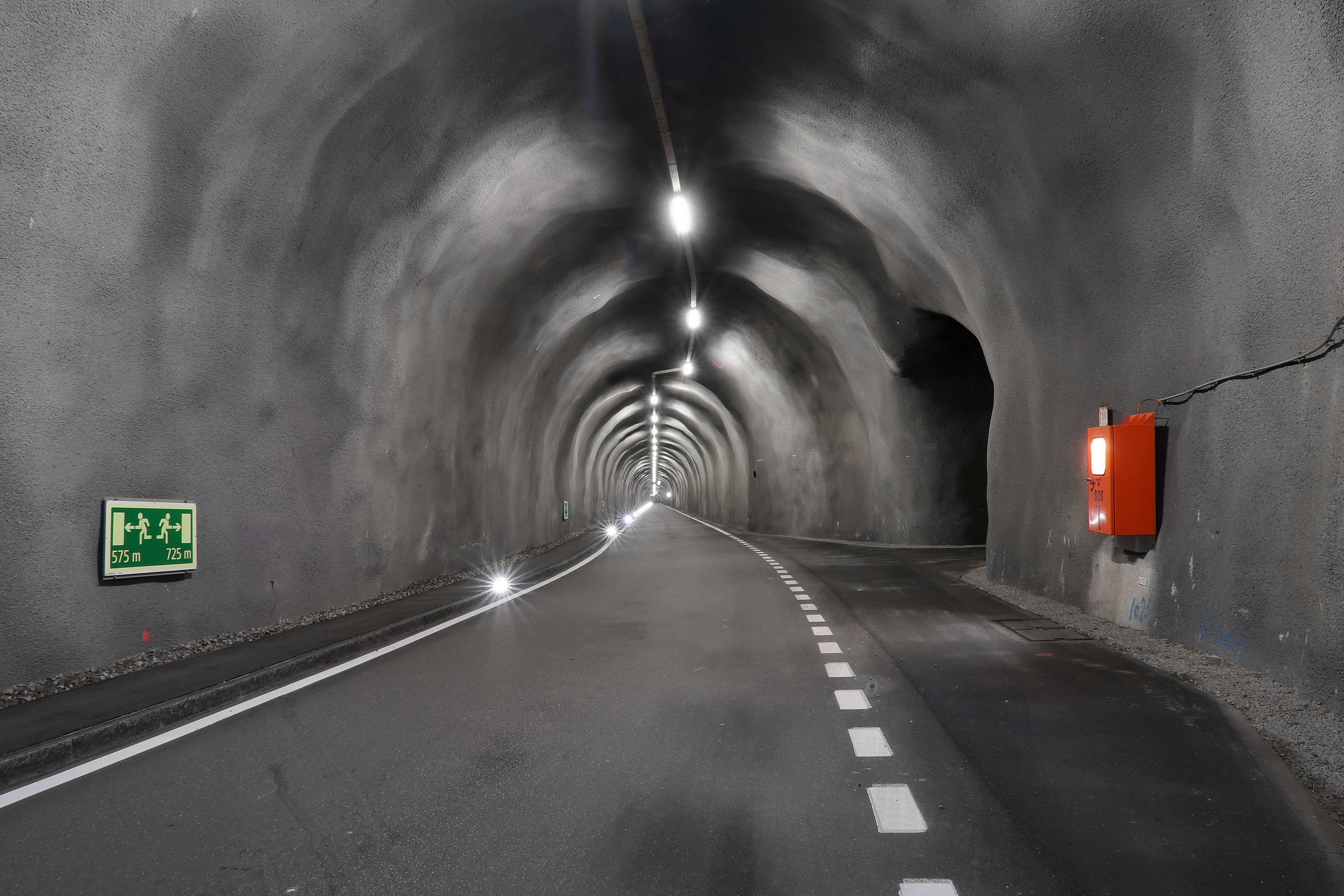 The view back from the end of the long straight stretch towards the lower portal. The upper part of the tunnel runs in a large 180°-curve. Switzerland, Okt 10, 2018. (12/26)